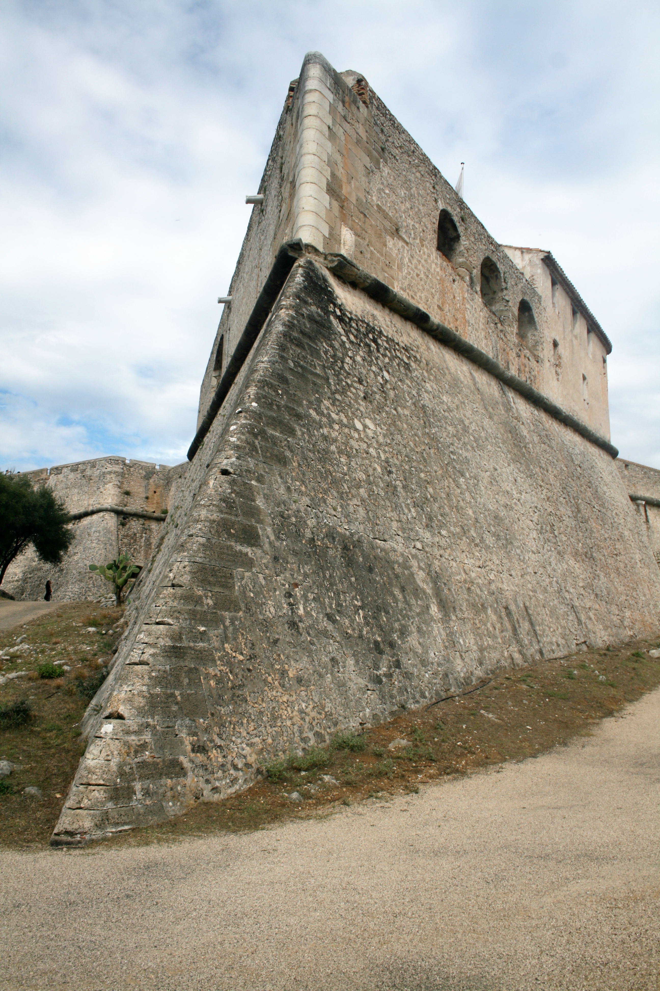 South point of Fort Carré, in Antibes.